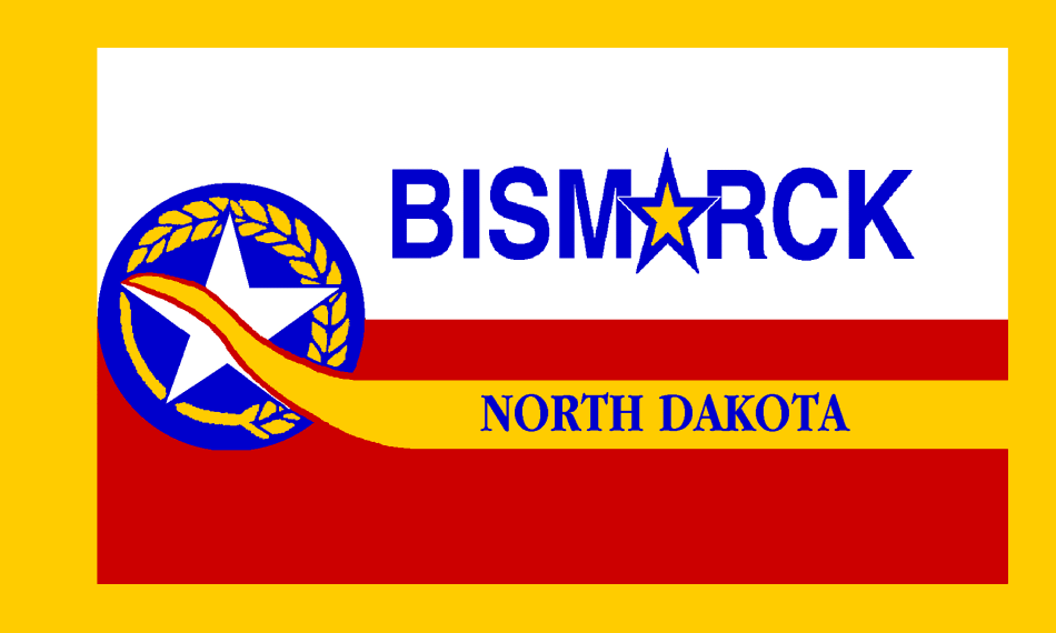 Flag of Bismarck, North Dakota